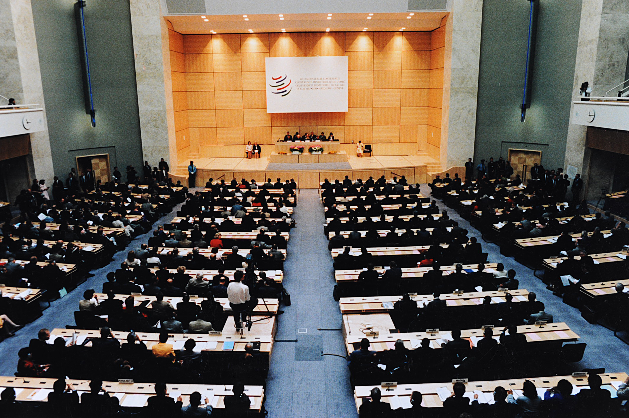 These photos may be reproduced provided attribution is given to the WTO and the WTO is informed. Photos: © WTO